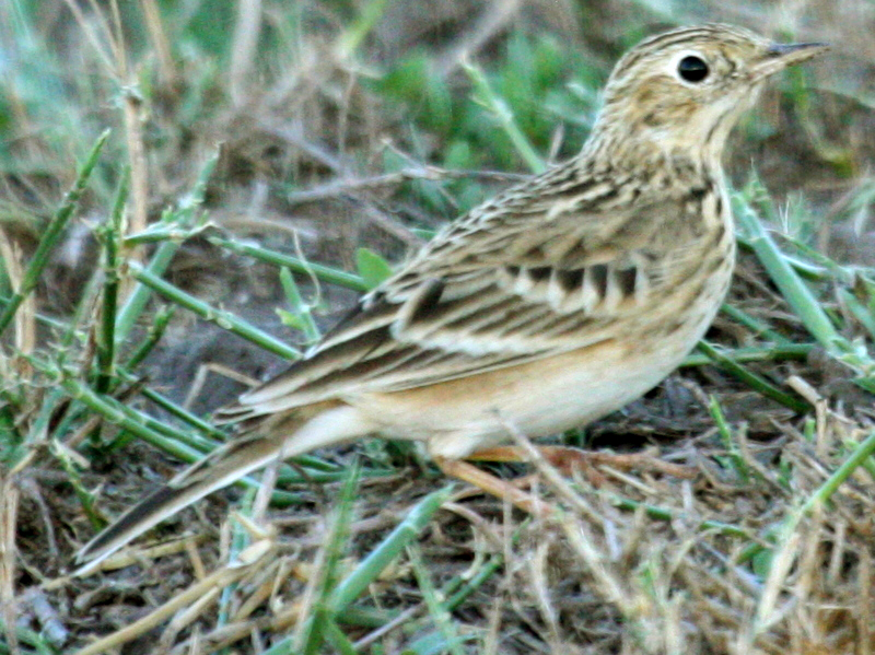 Sprague's Pipit Anthus spragueii, fields east of Harlingen, Cameron County, Texas. There were a few pretty large flocks of these birds that flew over, calling. They responded remarkably well to taping, with most birds coming closer, and several landing. Only two landed close, though, and of those only this one stayed for a while.